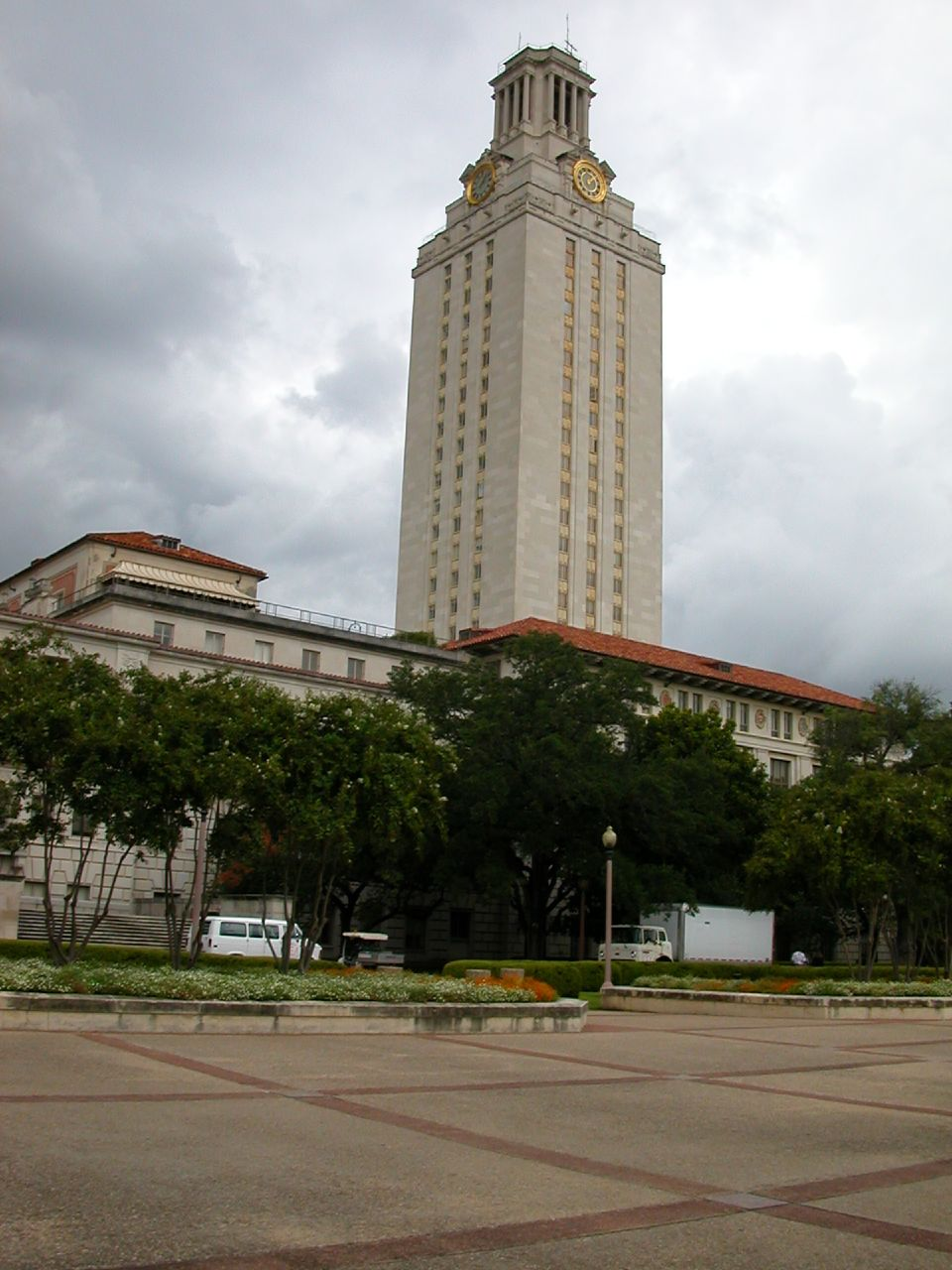 The Tower at the University of Texas. This was taken from the east side of the tower.